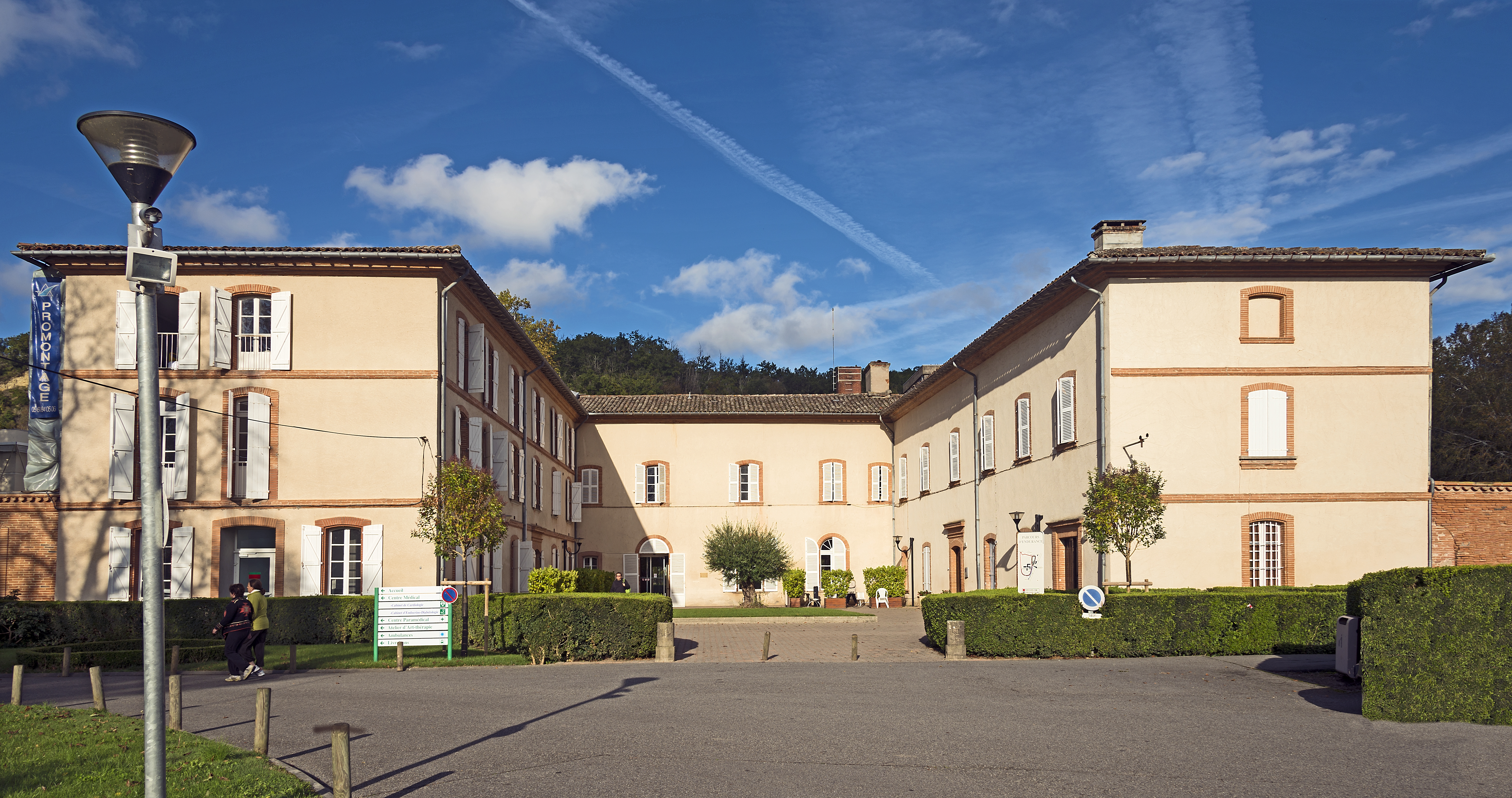 The castel of Vernhes. Bondigoux, Haute-Garonne, France. Facade.